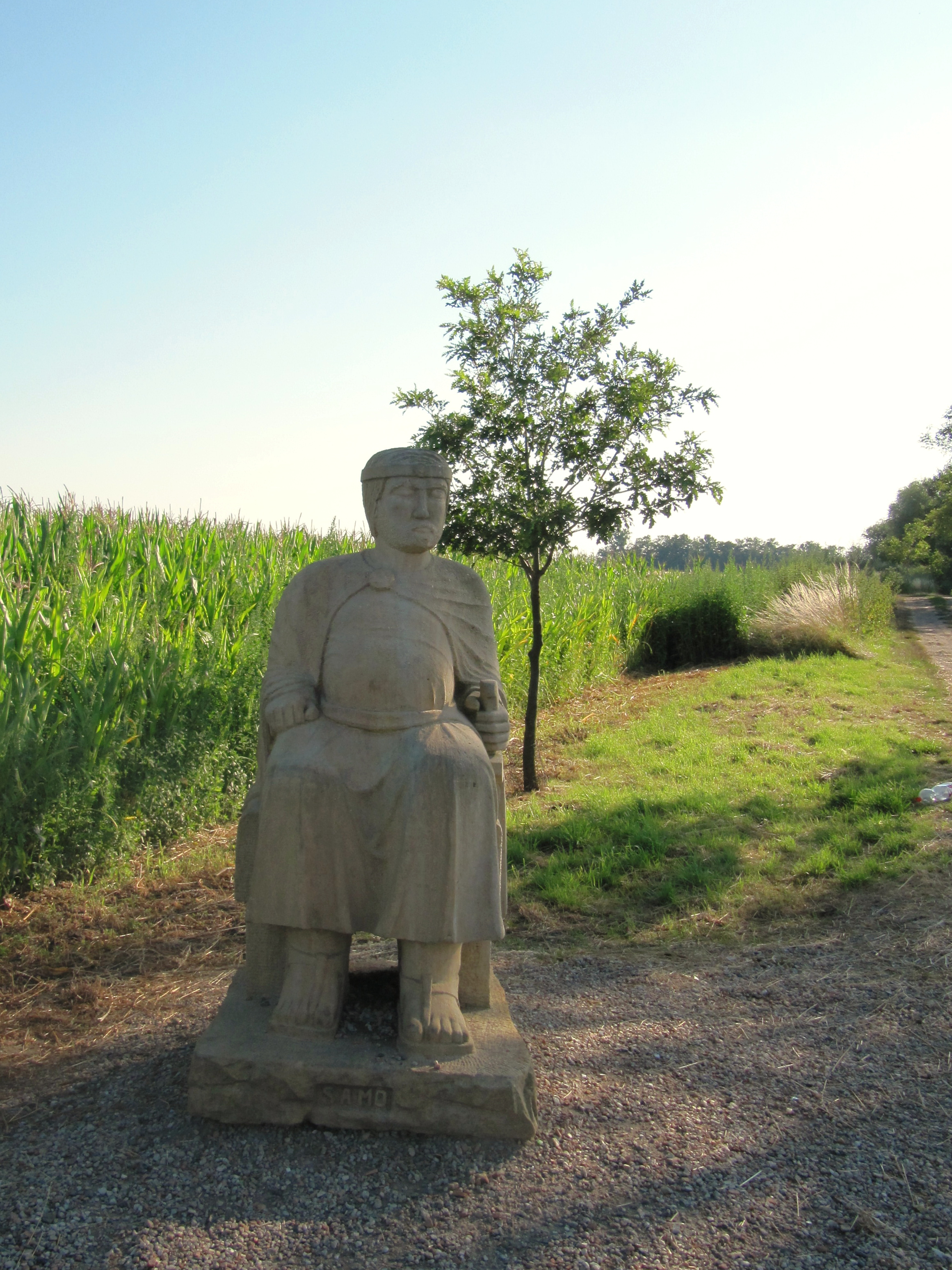 Hill Náklo near Dubňany in Hodonín District, Czech Republic. Statue of Samo.